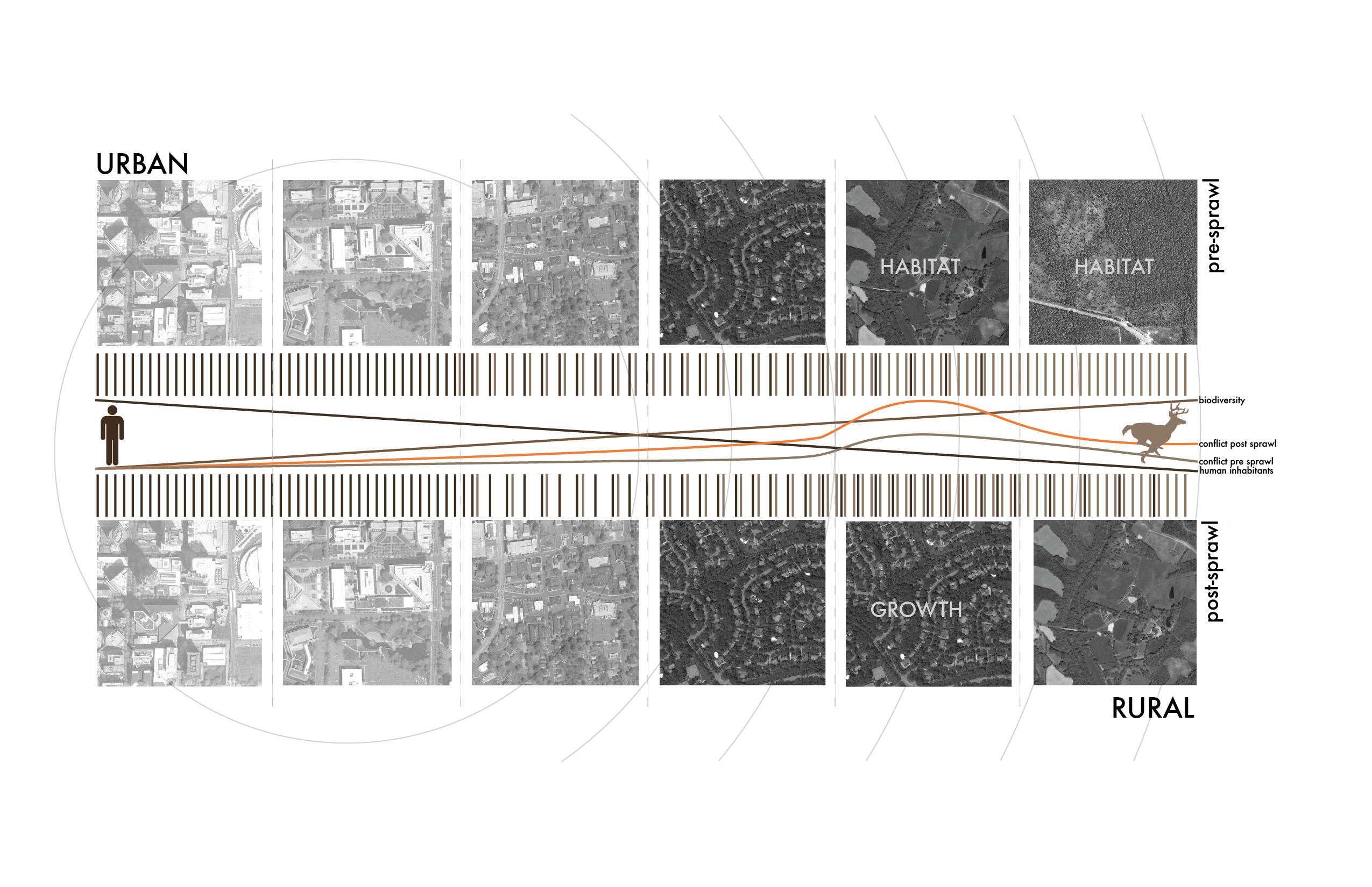 Diagram of Human Wildlife Conflict in Expanding American Cities: As human population extends from urban centers in the form of suburban sprawl, natural wildlife habitat is displaced. The population density of wildlife and humans overlaps increasing interaction thus resulting in increased conflict. Byproducts of human existence offer un-natural opportunity for wildlife in the form of food and shelter, resulting in increased nuisance and potentially destructive threat for humans.